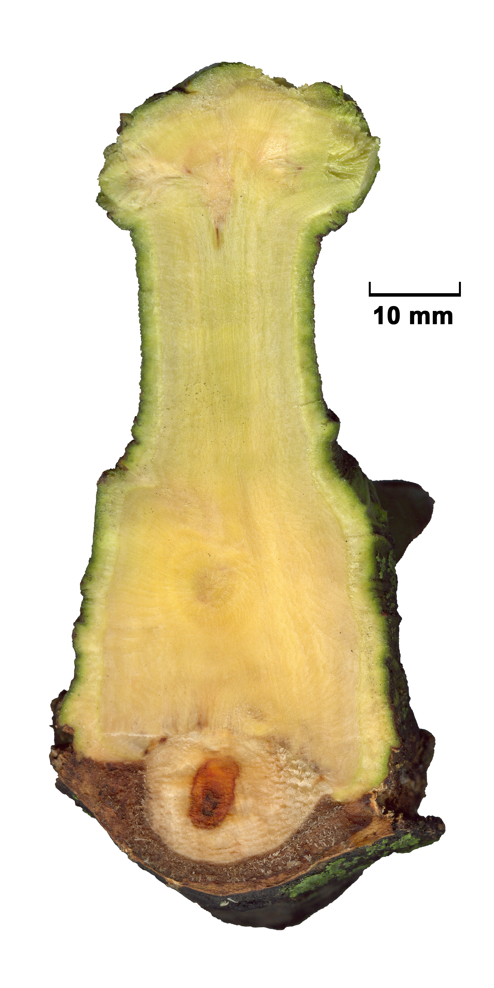 European Mistletoe (Viscum album). Cross-section on a branch of a Hybrid Black Poplar (Populus × canadensis). Ukraine.